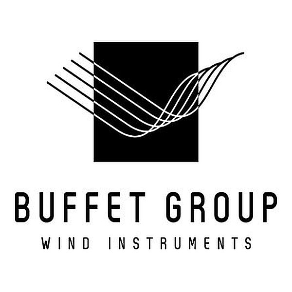 Buffet Group Logo